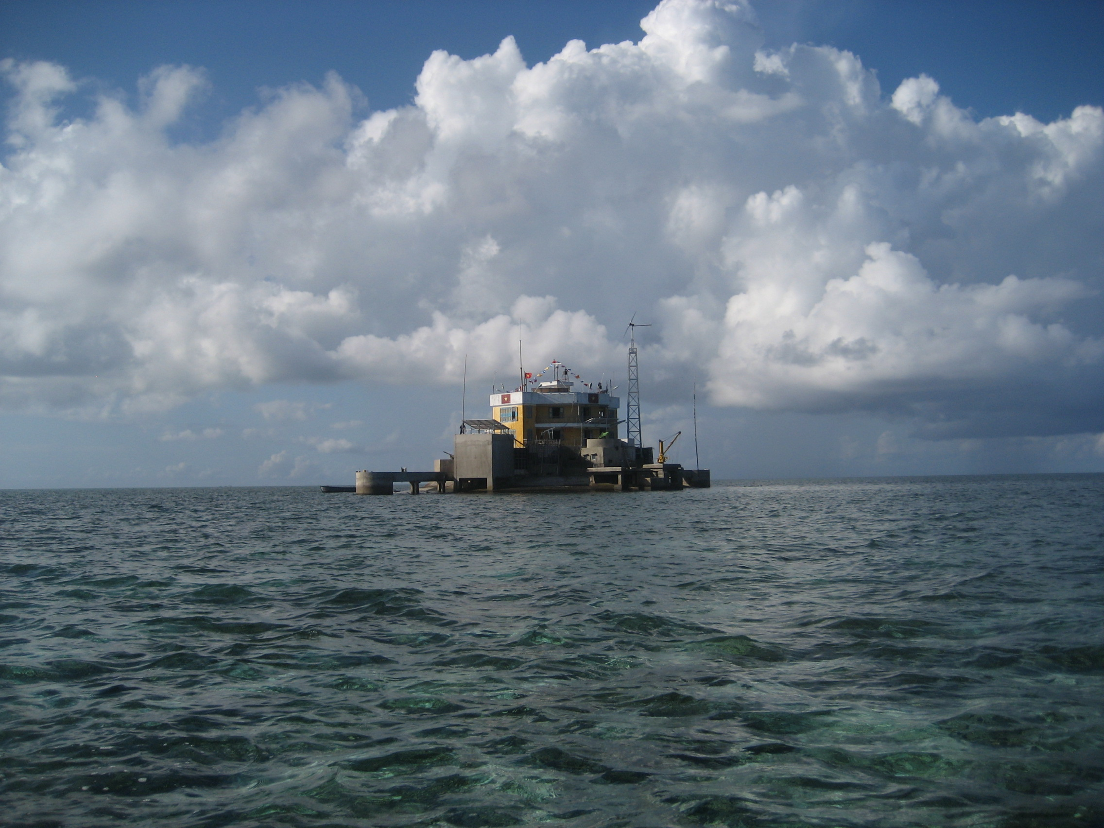 Collins Reef in the southeast of Union Banks, Spratly Islands, Vietnamese-built structure on top of submerged reef